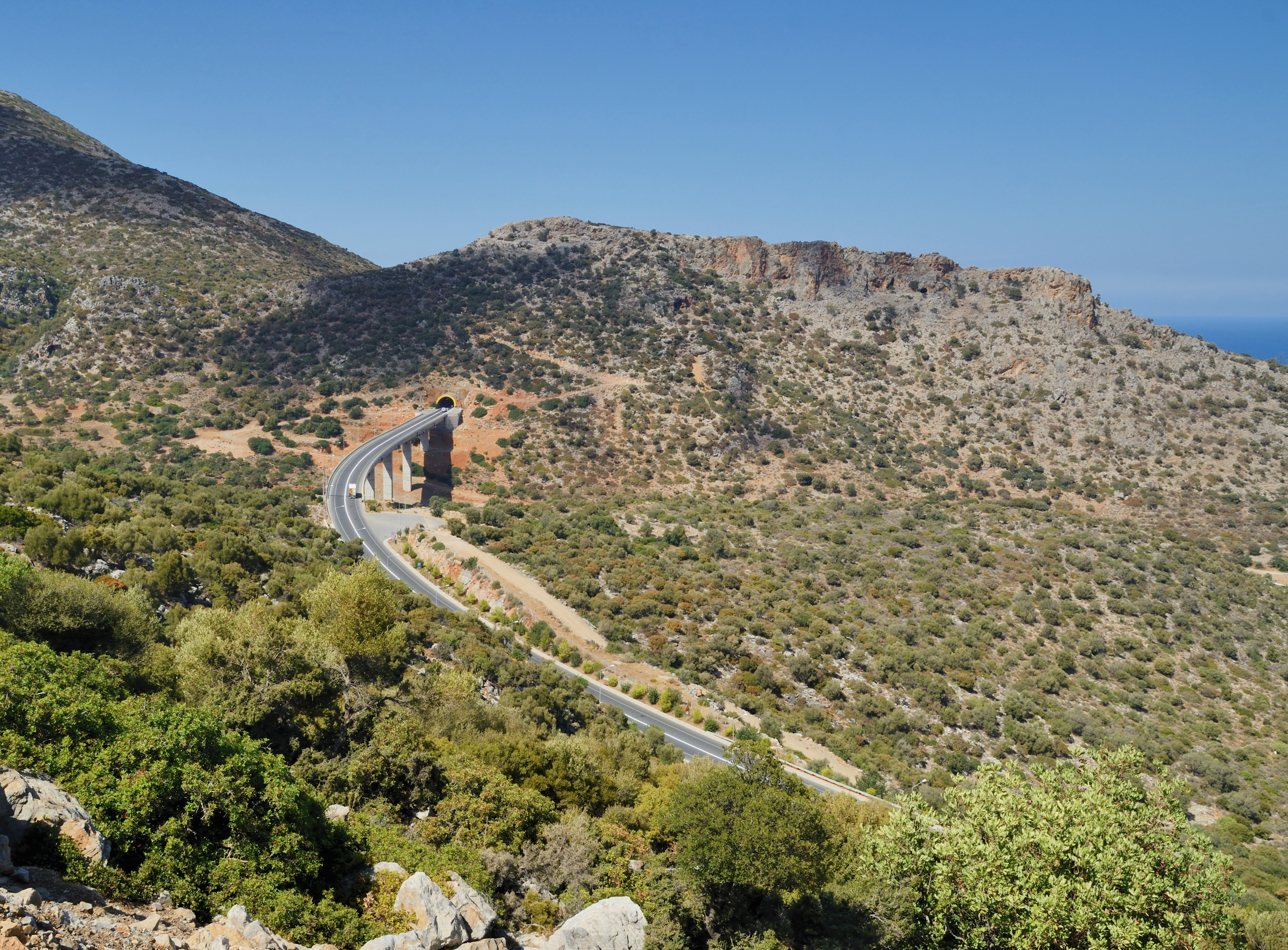 Crete: European route E75